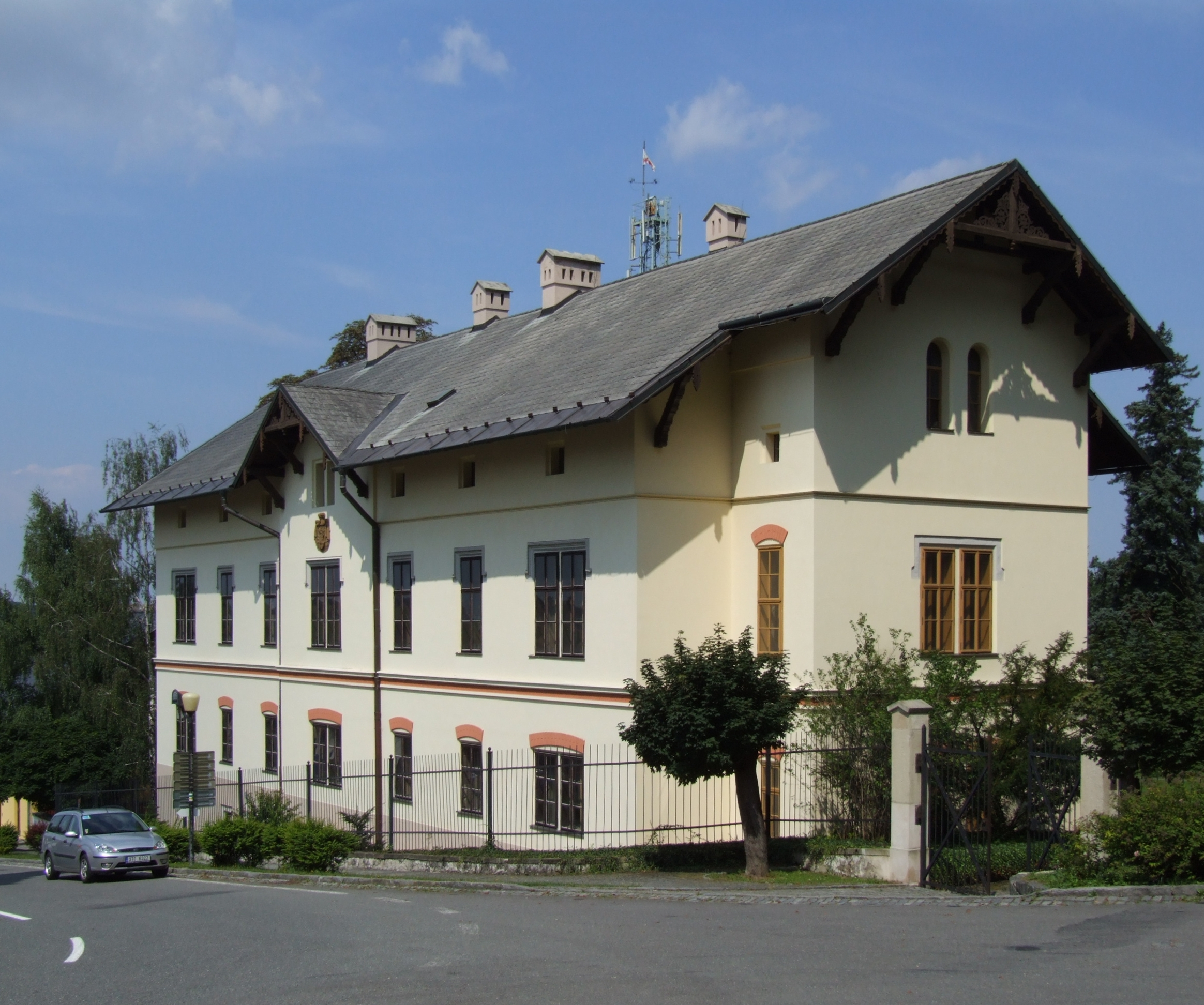 House (former archbishops palace) in Hukvaldy, Moravia